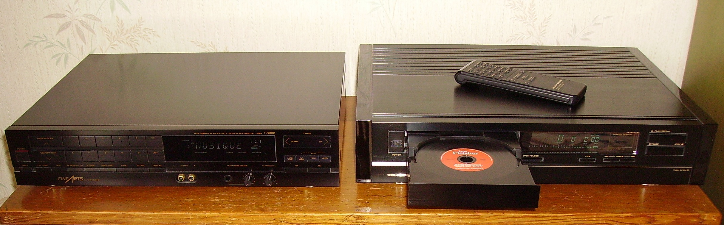 Hifi sources: tuner with RDS and integrated CD player. Devices (≈19-inch wide): FM/AM tuner: Grundig "Fine Arts" T-9000 (year 1991). Quartz oscillator with PLL decoder. Pressing a button generates a 400 Hz calibration tone for adjusting the recording level of tape recorders (e.g. DAT ones); CD player: Marantz CD-94MKII (year 1989) with remote control. CD: J. Brahms and L. van Beethoven piano concertos; Leon Fleisher (pianist) - George Szell (conductor).